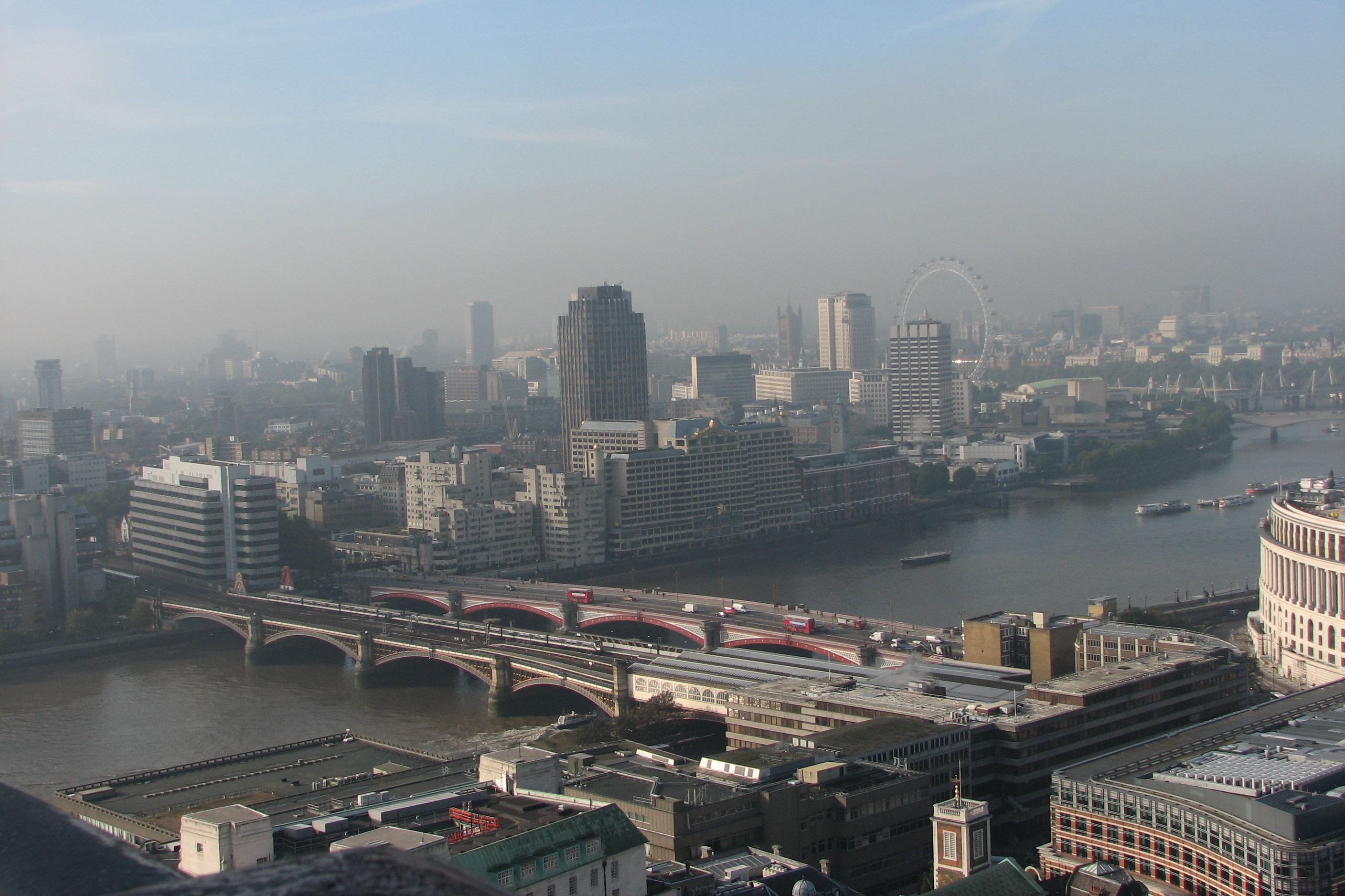 A view of the South bank of London, including the Blackfriars Bridge and the London Eye, in the midmorning mist. Taken from St. Paul's Cathedral.